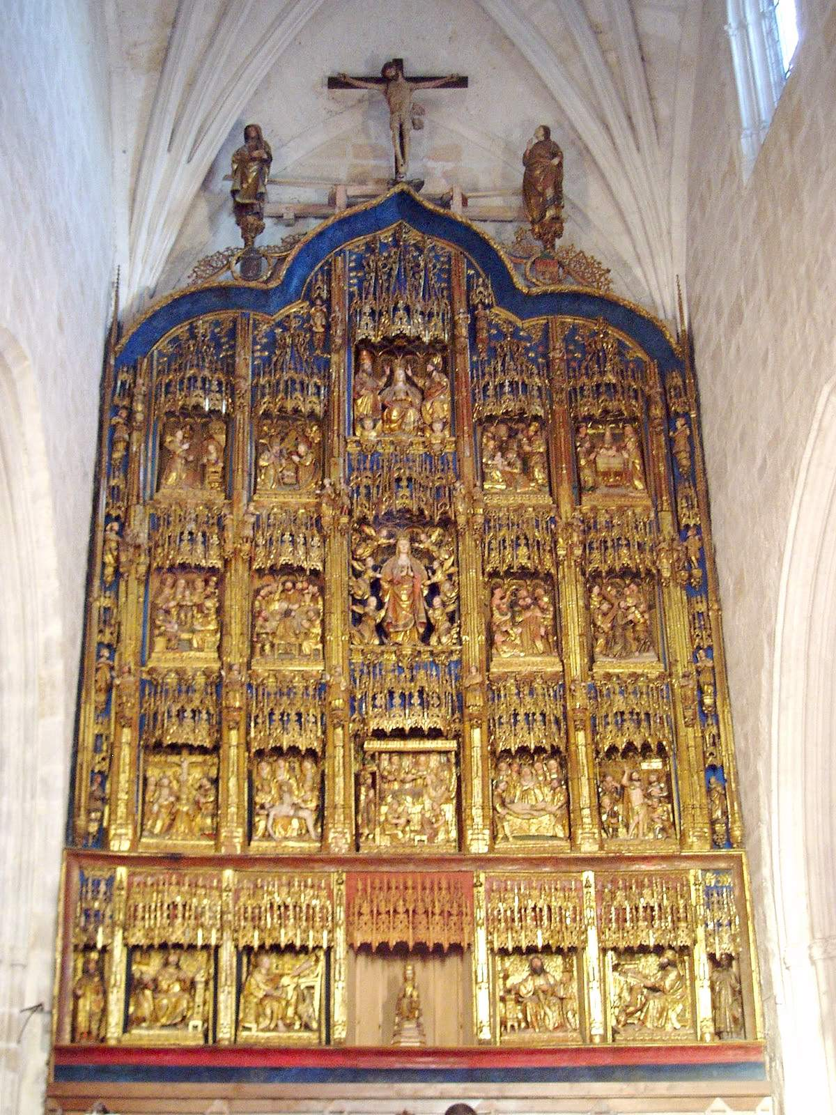 Parroquia de Gumiel de Izán, en la provincia de Burgos